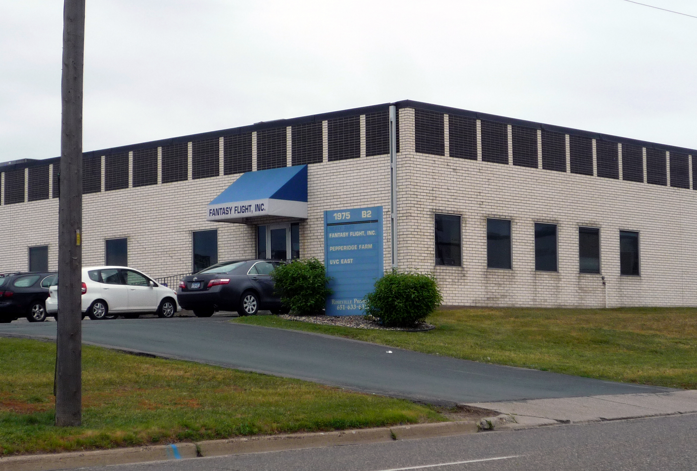 Fantasy Flight Games headquarters, Roseville, Minnesota, USA.